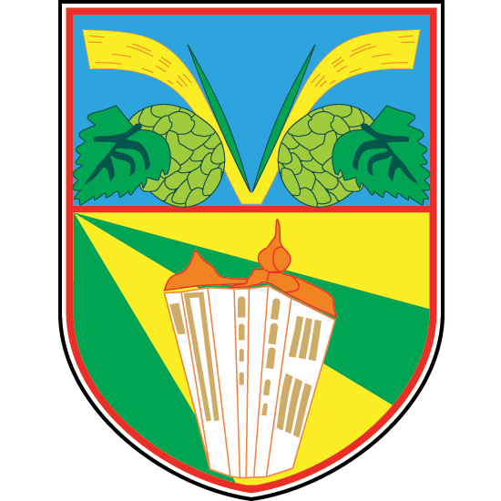 Coat of Arms of the city and municipality of Bački Petrovac, Serbia